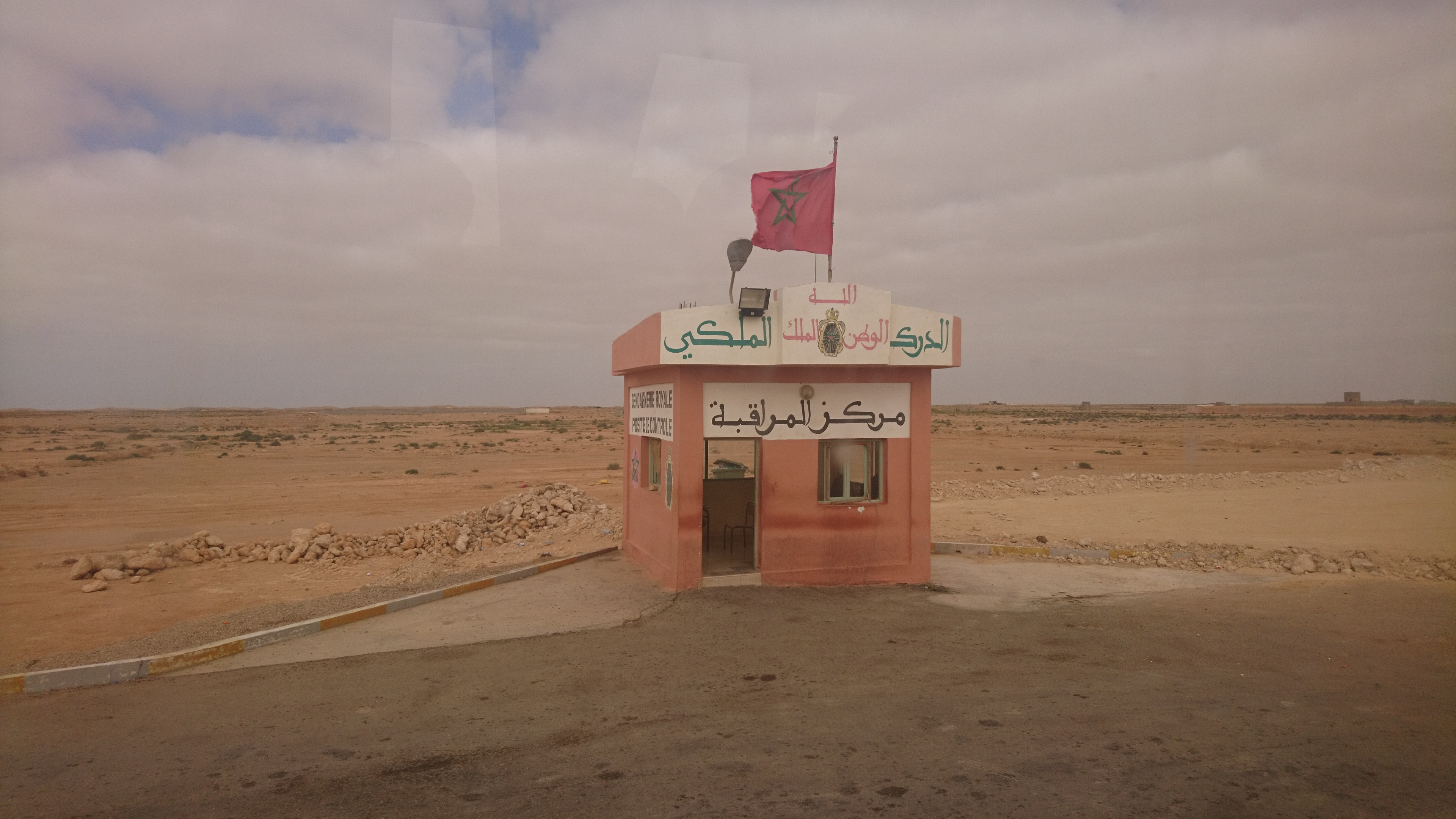 Check point in Sahara - Morocco This is an image with the theme "Africa on the Move or Transport" from: Morocco